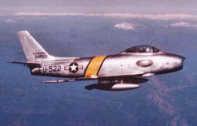 A U.S. Air Force North American RF-86F Sabre over the skies of Korea, about 1953.